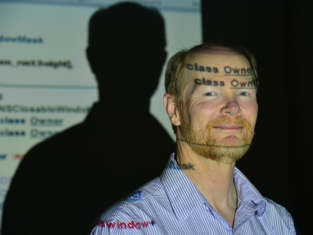 Intel Fellow Bruce Horn is leading the effort "to figure out how to make systems that are smart and useful to people, much more than they are now." See More: What is the Future of Mobile Devices? Intel Fellow Bruce Horn is leading the charge to make mobile devices smarter and more useful than they are today. As Intel has moved into the smartphone and tablet market an influx of new talent has joined the company. Many of those people led storied careers before coming to Intel. One example is Bruce Horn, who joined in 2012 as an Intel Fellow in the Mobile and Communications Group after previous stops at Xerox PARC, Apple, Microsoft and a company he founded.